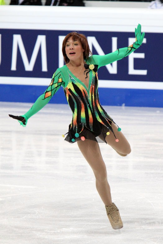 Alena Leonova at the 2011 European Figure Skating Championships